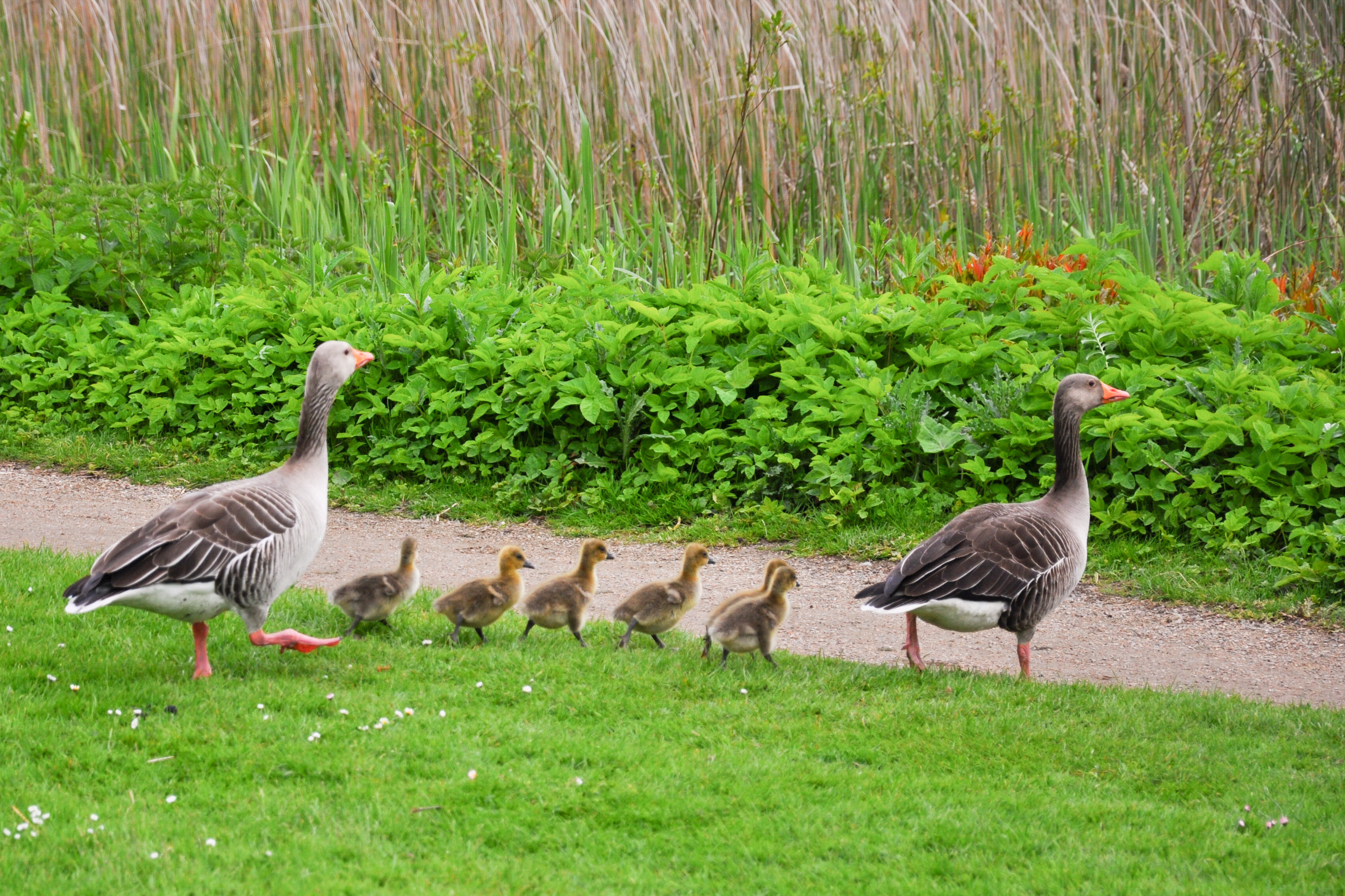 Geeses family ready for a little swim.